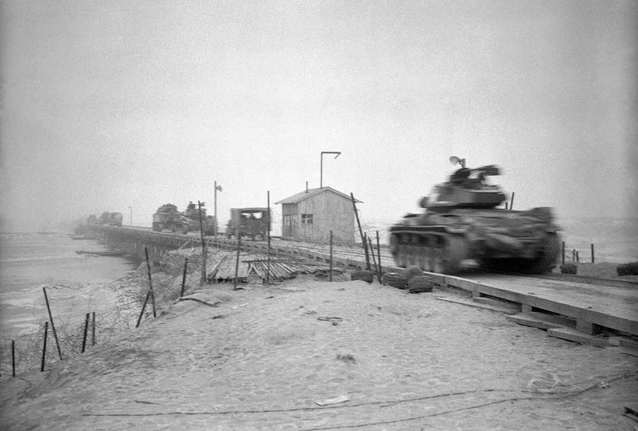 Last Americans tanks crossing Han River before being blown.